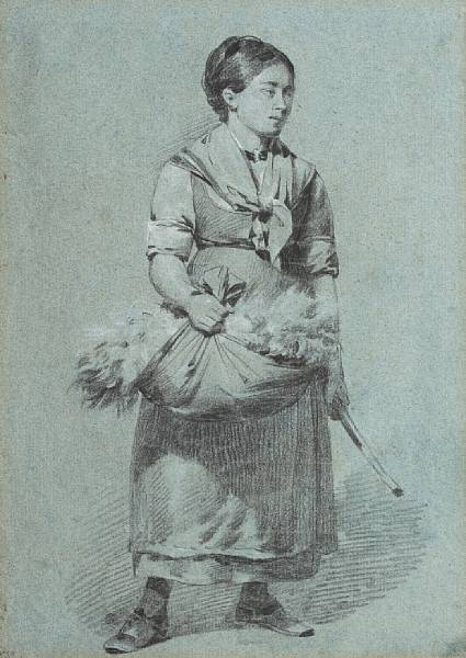 Chalk drawing heightened with white by Thomas Sewell Robins (1810-1880)